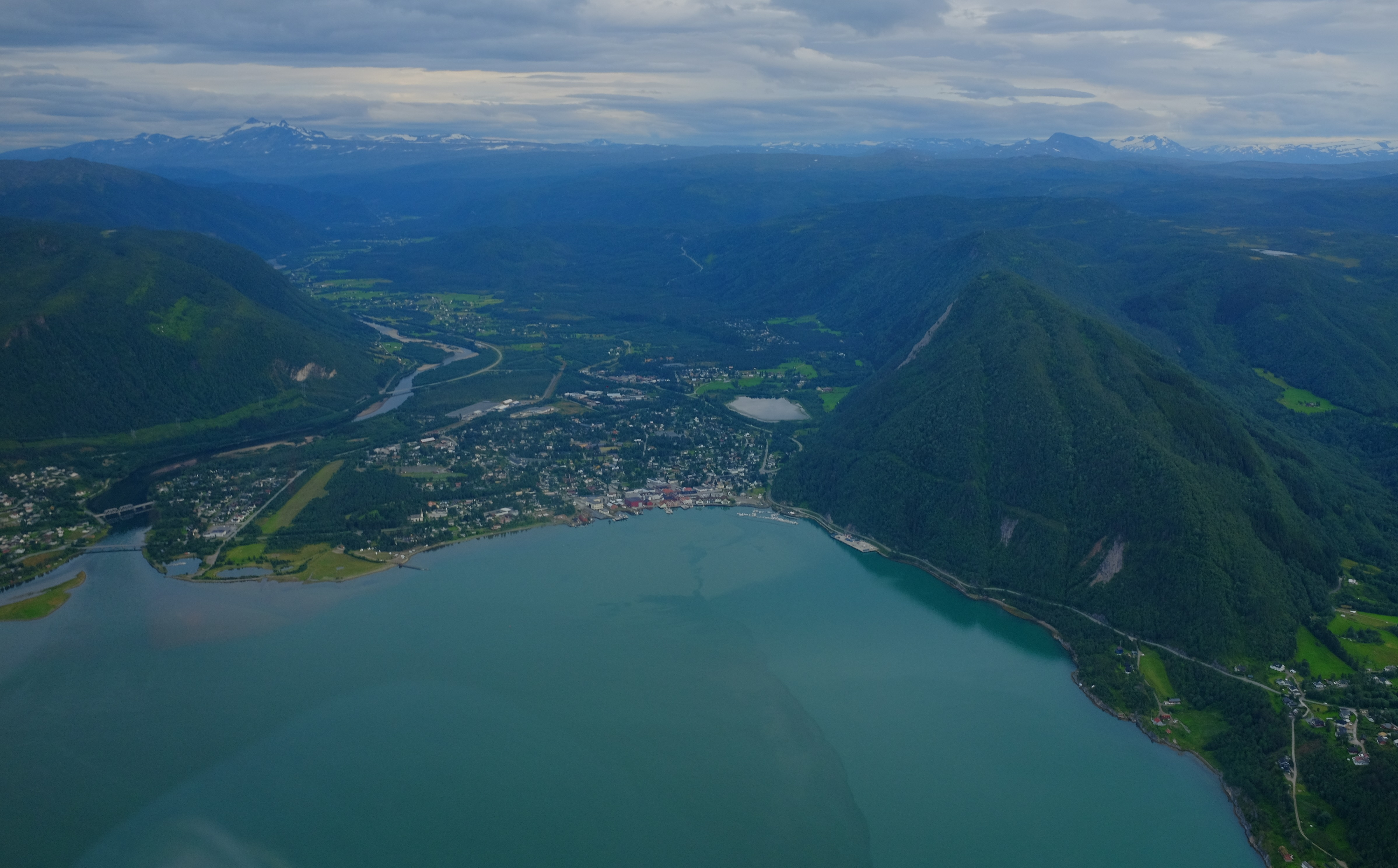 The village of Rognan in Saltdal municipality. Saltdal is also the name of the valley as the main part of the inhabitants live in. The valley starts in the north from the bottom of Skjerstadfjord, which here is called Saltdalsfjorden, and extend south to Saltfjellet.